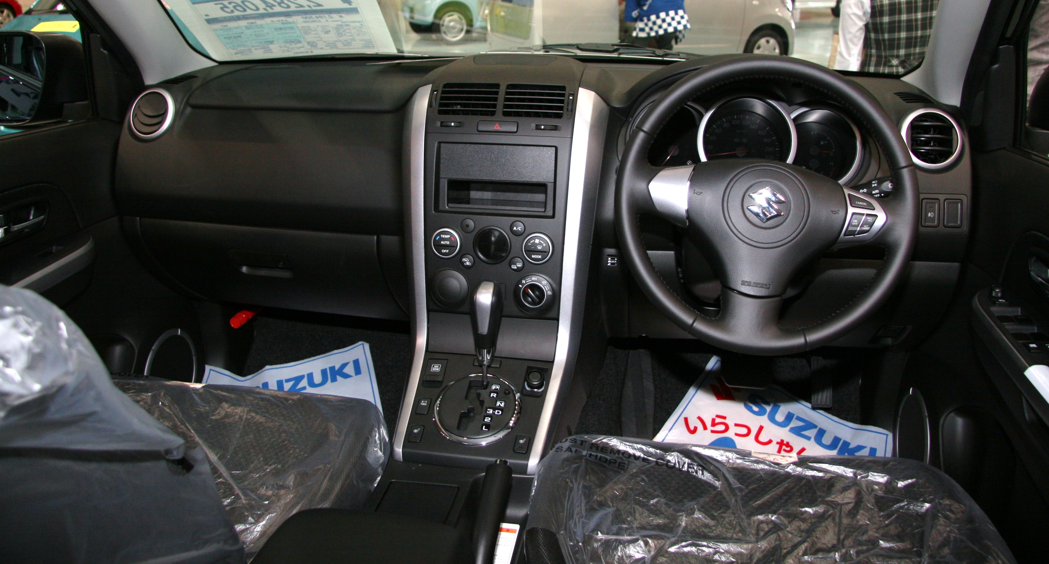 Suzuki Escudo